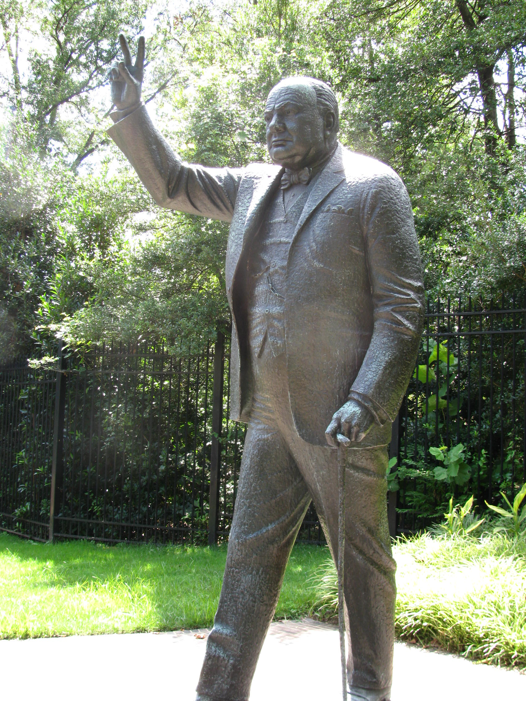 Winston Churchill, (sculpture). Artist: McVey, William, 1905-1995 , sculptor. George F. Dalton and Associates, architectural firm. Fred Toquchi Associates, architectural firm. [1]